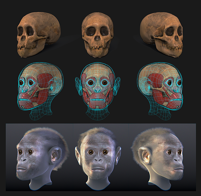 3D forensic facial reconstruction using free software. Arc-Team, Antrocom NPO, University of Padua